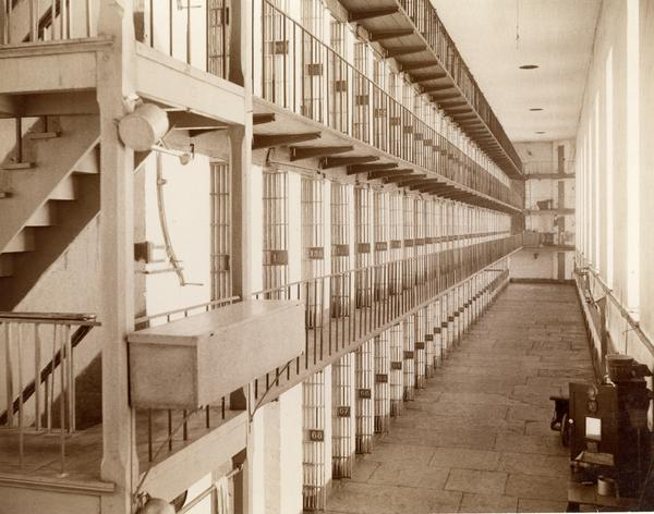 A photograph of a cell block in the Wisconsin State Prison.